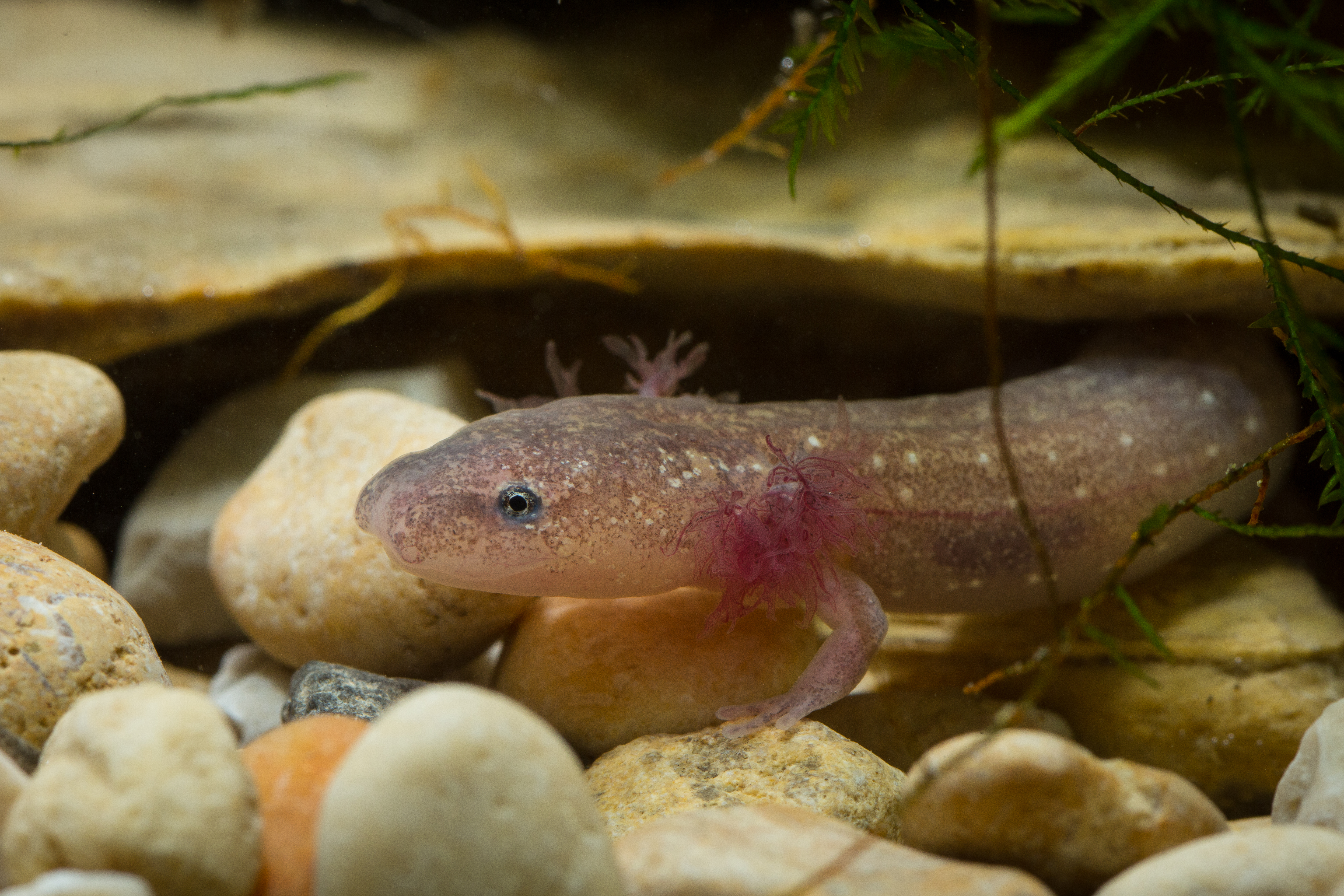 Barton Springs Salamander (Eurycea sosorum)